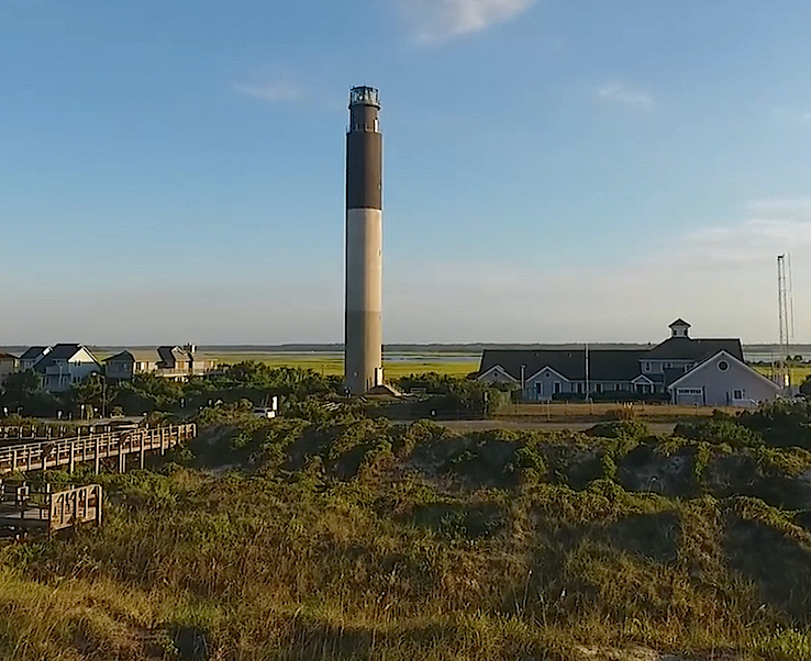 Still image taken from Drone video using Apple's Preview Software